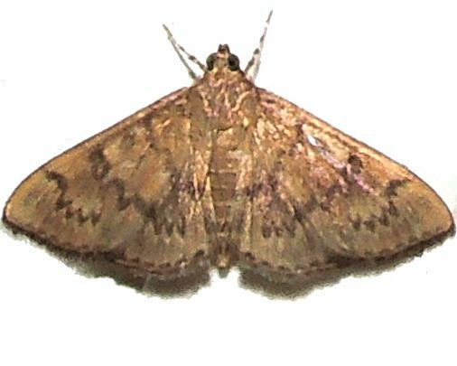 6/21/13 Franklin County Photo and ID thanks to Jack Foreman